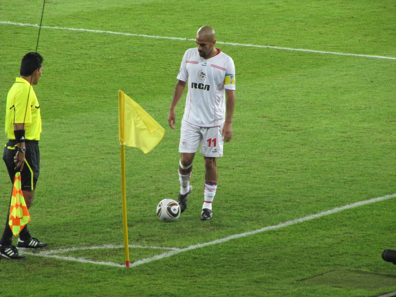 Juan Sebastián Verón takes a corner during the final of 2009 FIFA Club World Cup